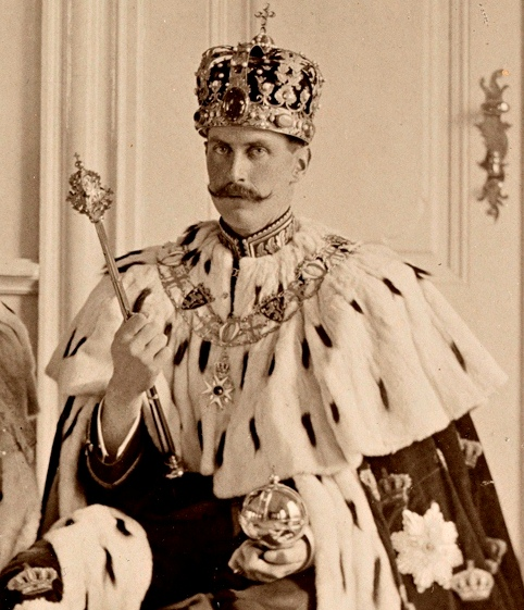 King Haakon VII with his regalia